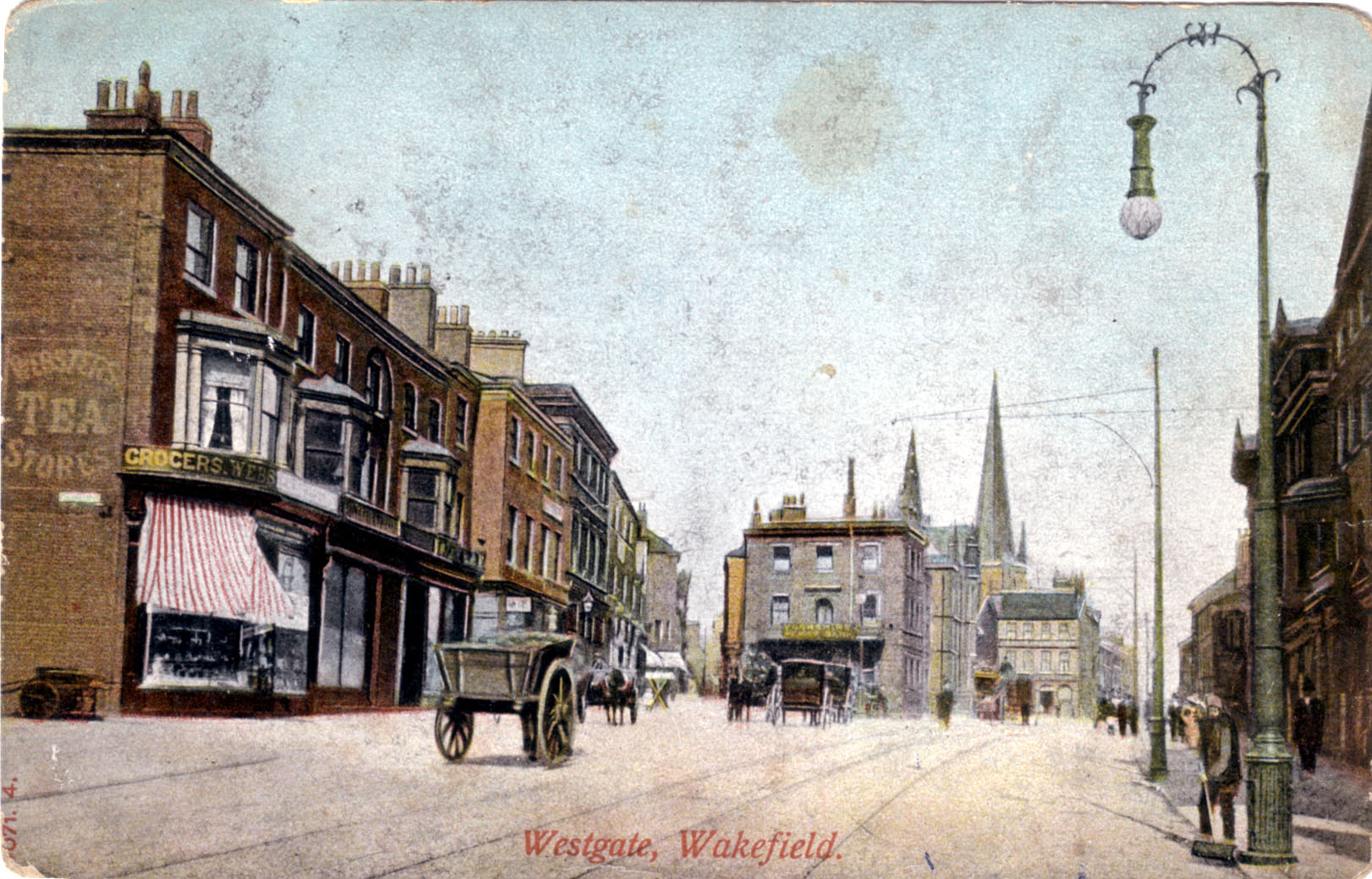 Image of Westgate, Wakefield, Yorkshire, England, circa 1900